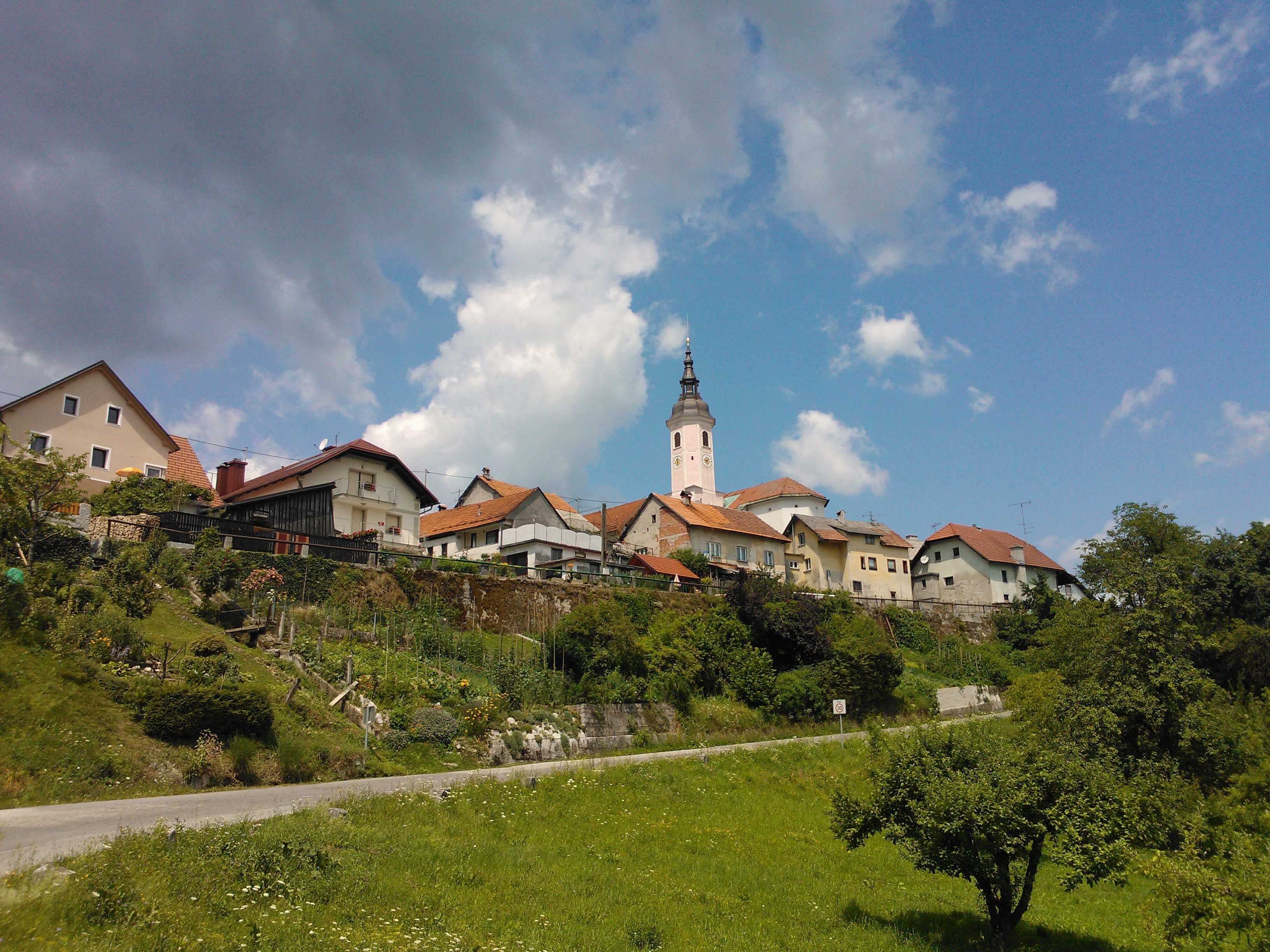 Town Višnja Gora, Slovenia.